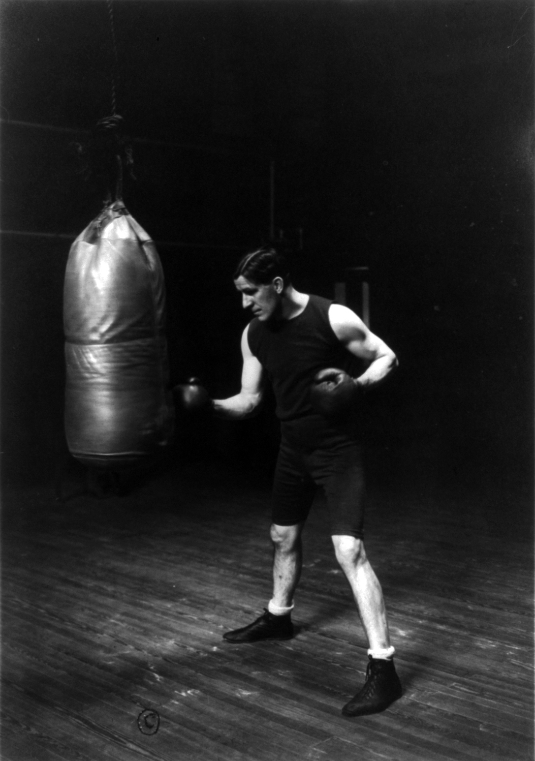 James J. Corbett, American boxer, punching the bag to get in condition to handle James J. Jeffries for the championship fight. First photos taken with gloves in five years